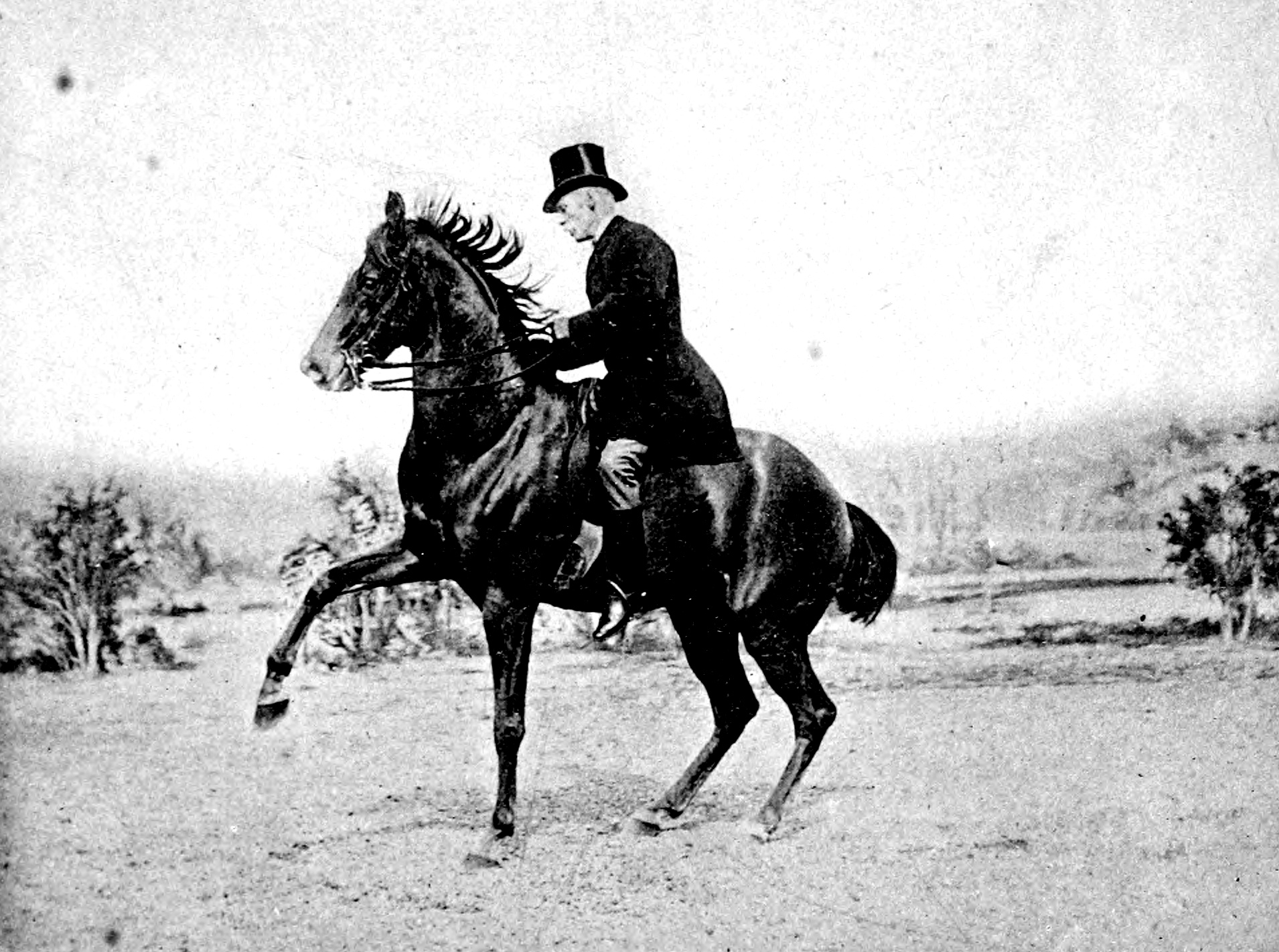 Illustrations fromPrincipes de dressage et d'équitation (James Fillis)